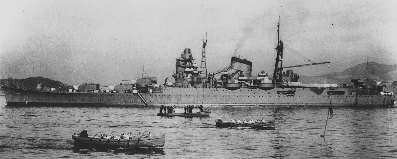 Japanese cruiser Suzuya moored in Kure Naval harbor, photographed fron the battleship Fuso.